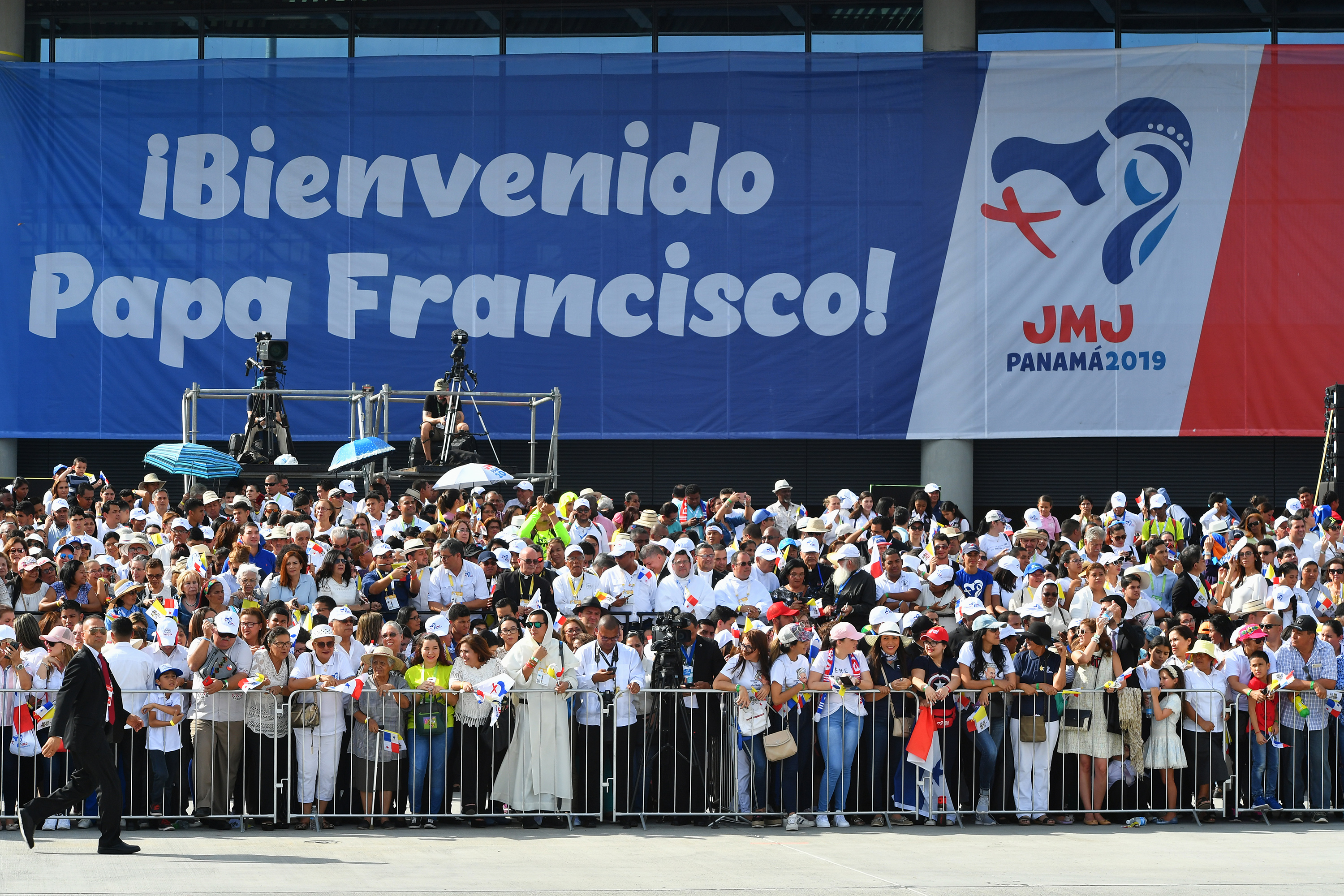 Nuclear Security in Major Public Events: World Youth Day 2019 Panama prepares to welcome Pope Francis and 500,000 Catholic youth for the World Youth Day 2019. The International Atomic Energy Agency’s (IAEA) Division of Nuclear Security assists with integrating nuclear security measures into overall security planning for the major public event. Panama City, Panama. 16-24 January 2019 Panama City, 23 January 2019. Crowds cheered as Pope Francis arrived at the Tocumen International Airport for World Youth Day 2019. Panama, the first Central American country to host the World Youth Day, cooperated with the IAEA to ensure nuclear security at the event. Text: Inna Pletukhina, IAEA Division of Nuclear Security, Outreach Officer Photo Credit: Dean Calma / IAEA